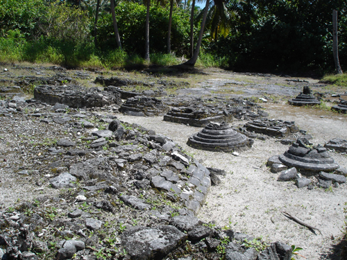 photo taken by uploader (a_robustus)